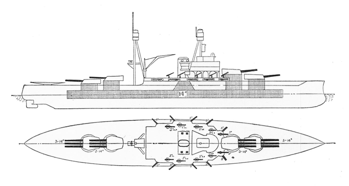 Fig. 22 Outline of United States Battleships, Arizona & Pennsylvania